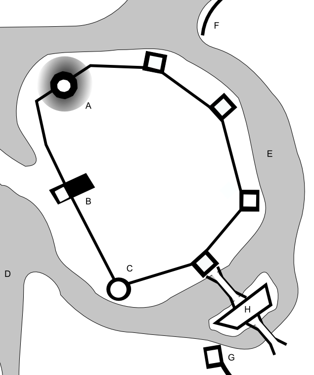 A diagram of Oxford Castle, around 1250. Key to diagram: A: The keep and motte; B: St George's Tower and Chapel; C: The Round Tower; D: River Isis; E: Moat; F: City wall; G: West Gate; H: Barbican. Map drawn after Hassall 1971, p.2; Tyack, p.6, p.80.